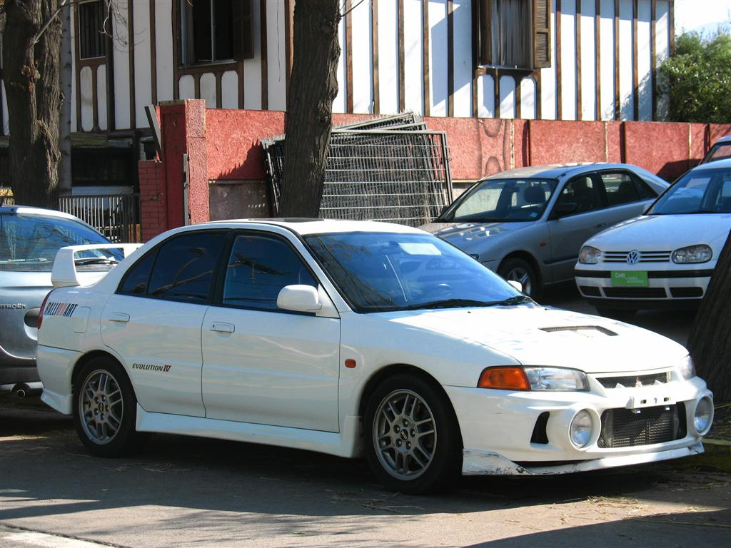 Mitsubishi Lancer Evolution IV in 1996.